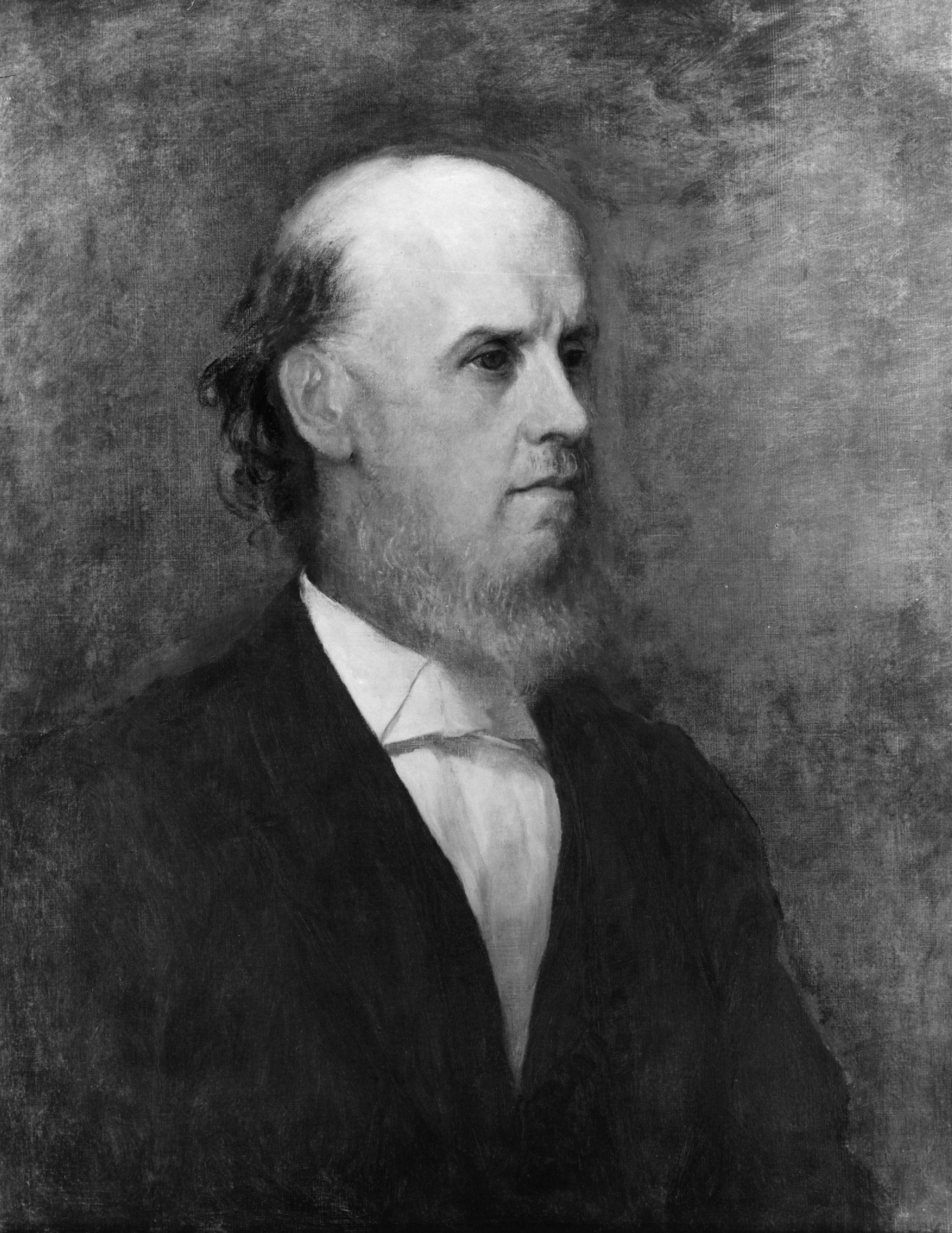 Samuel Augustus Barnett, by George Frederic Watts (died 1904). All images in this batch have been confirmed as author died before 1939 according to the official death date listed by the NPG.